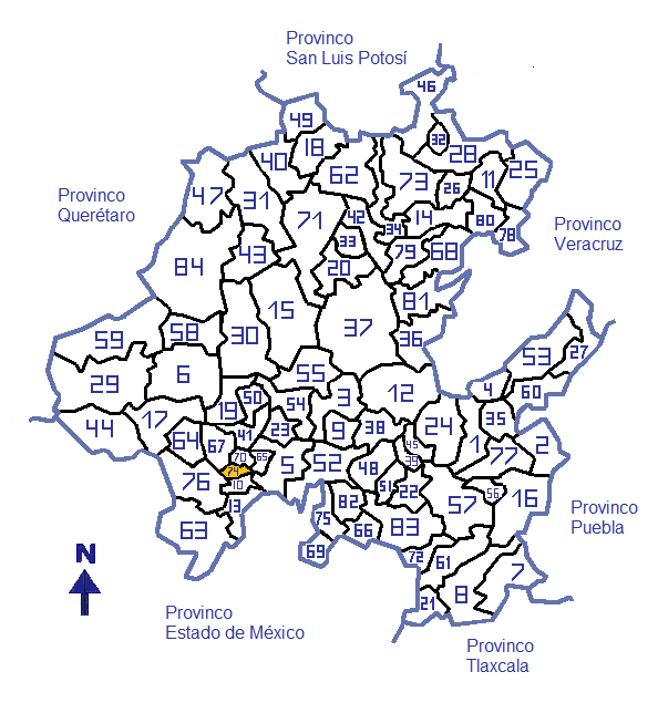 locator map